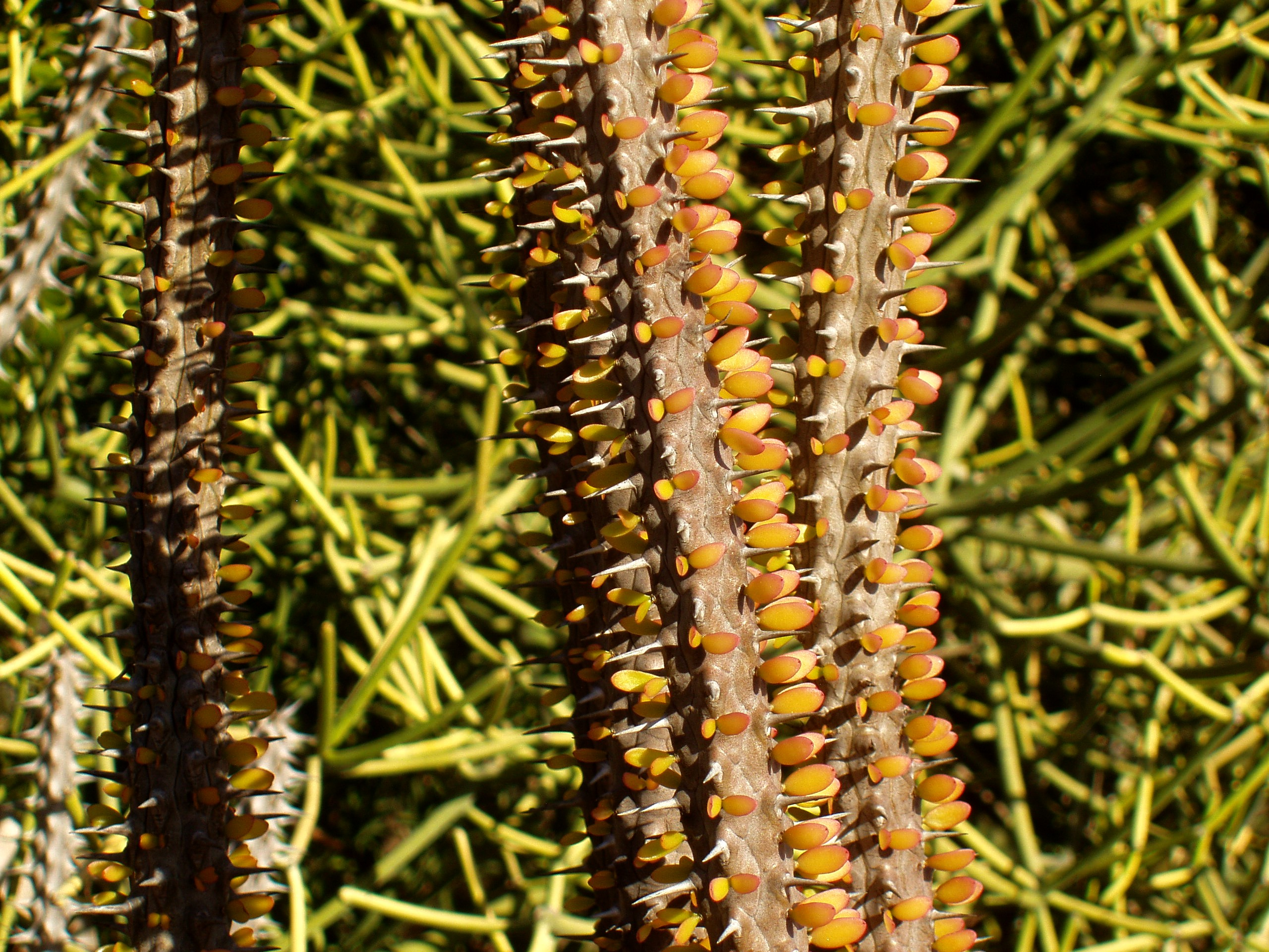 Didiereaceae Family plant — texture detail. At the San Diego Botanic Garden (formerly Quail Botanical Gardens) in Encinitas, California.